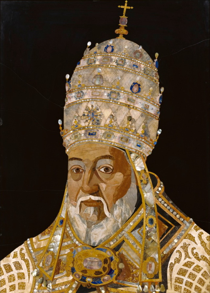 Pietra dura by Jacopo Ligozzi (draftsman) and Romolo di Francesco Ferrucci del Tadda (mosaicist)